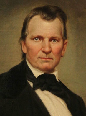 Bust-length portrait of Daniel Smith Donelson (1801-1863), nephew of President Andrew Jackson, oil on canvas in original giltwood frame, signed lower right and on back G. Dury, Historic Rock Castle - Hendersonville, Tennessee, Tennessee Portrait Project